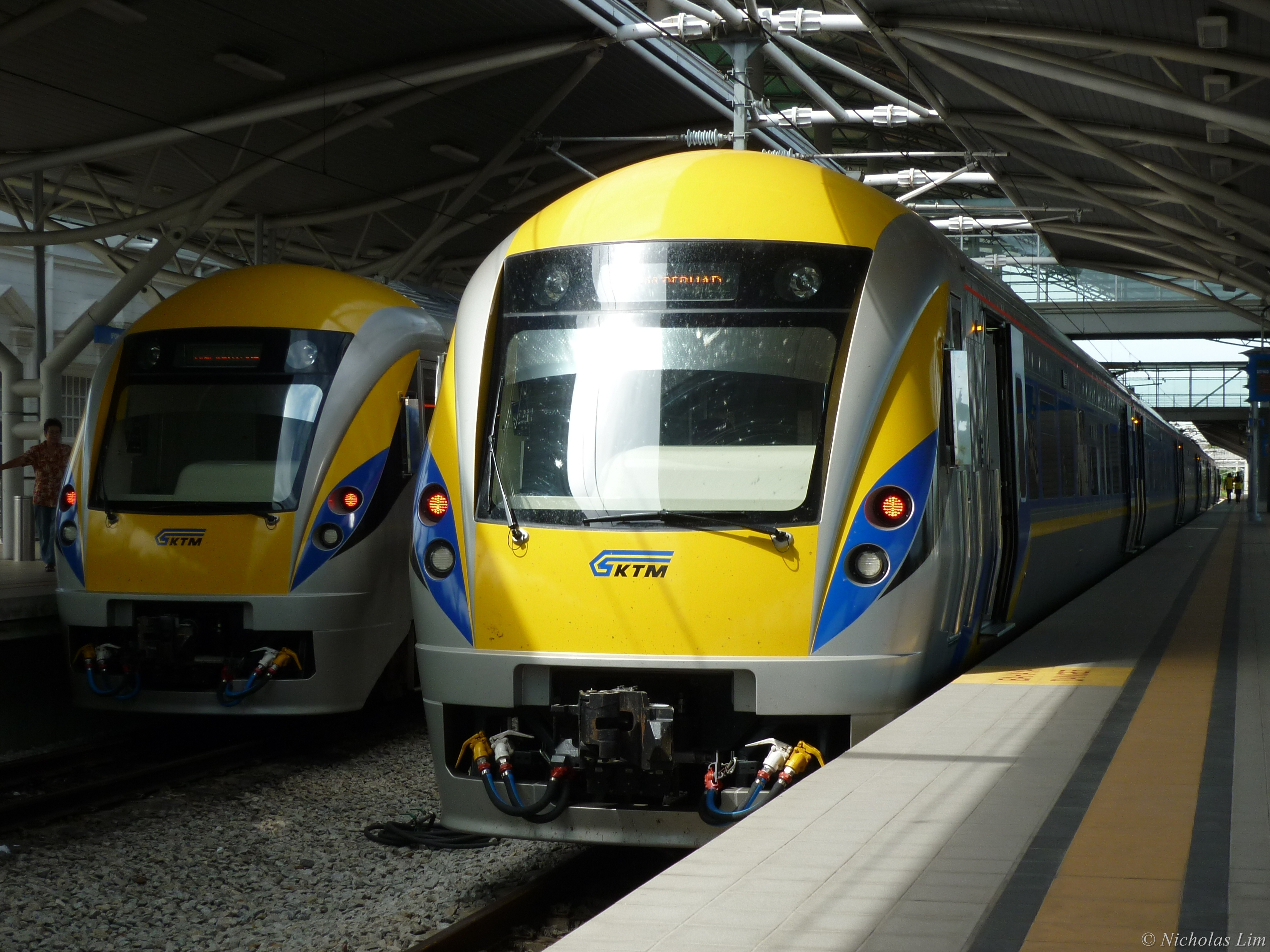 ETS at Ipoh